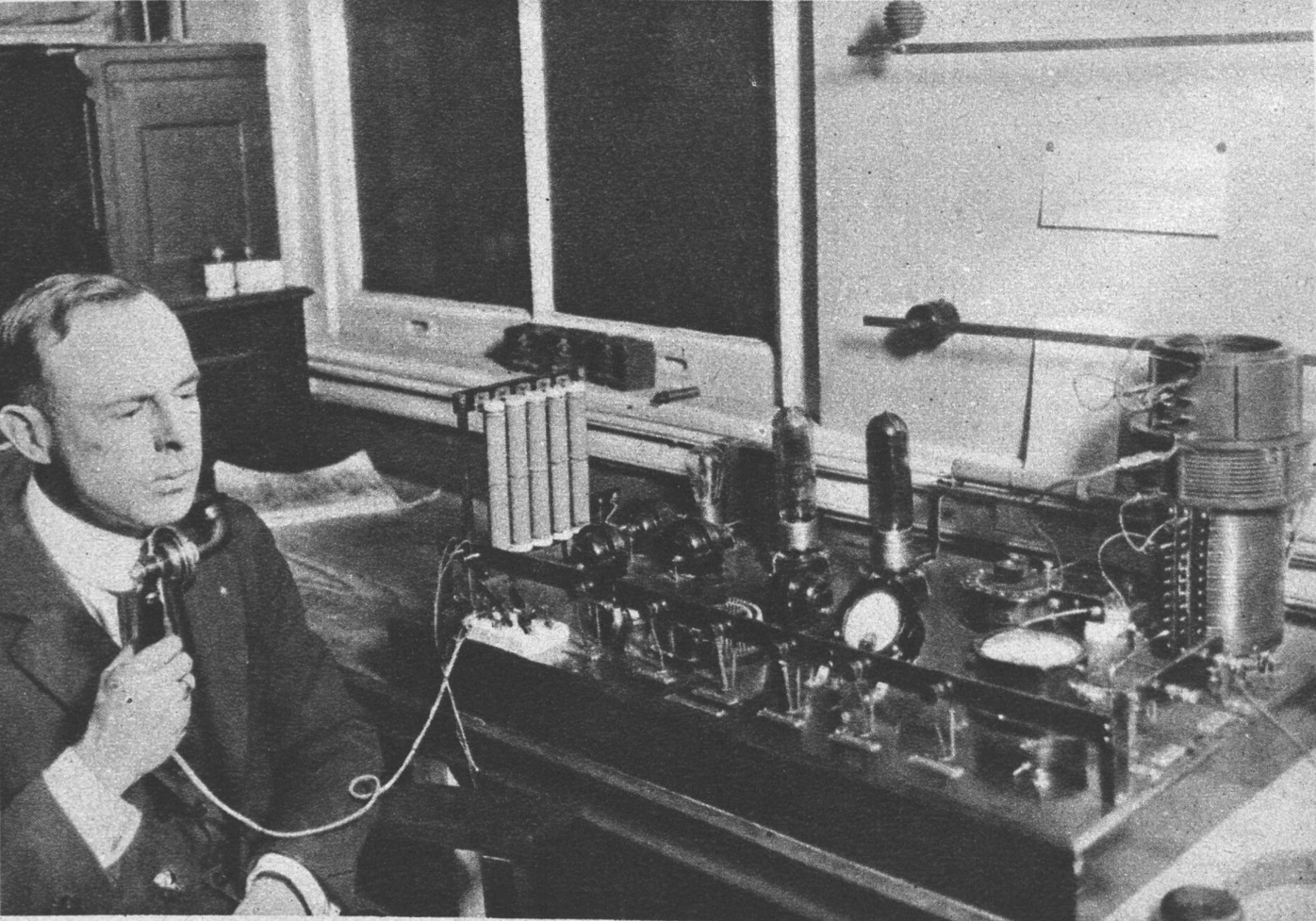 Thomas J. Williams was a Washington, D.C. radio engineer, who in 1921 built the transmitter for the Church of the Covenant's radio station, WDM, and operated his own broadcasting station, WPM, from 1922-1923. Original caption: "Mr. Thos. J. Williams, of Washington, D. C., Who Broadcasts Entertainments for the Local Amateurs."